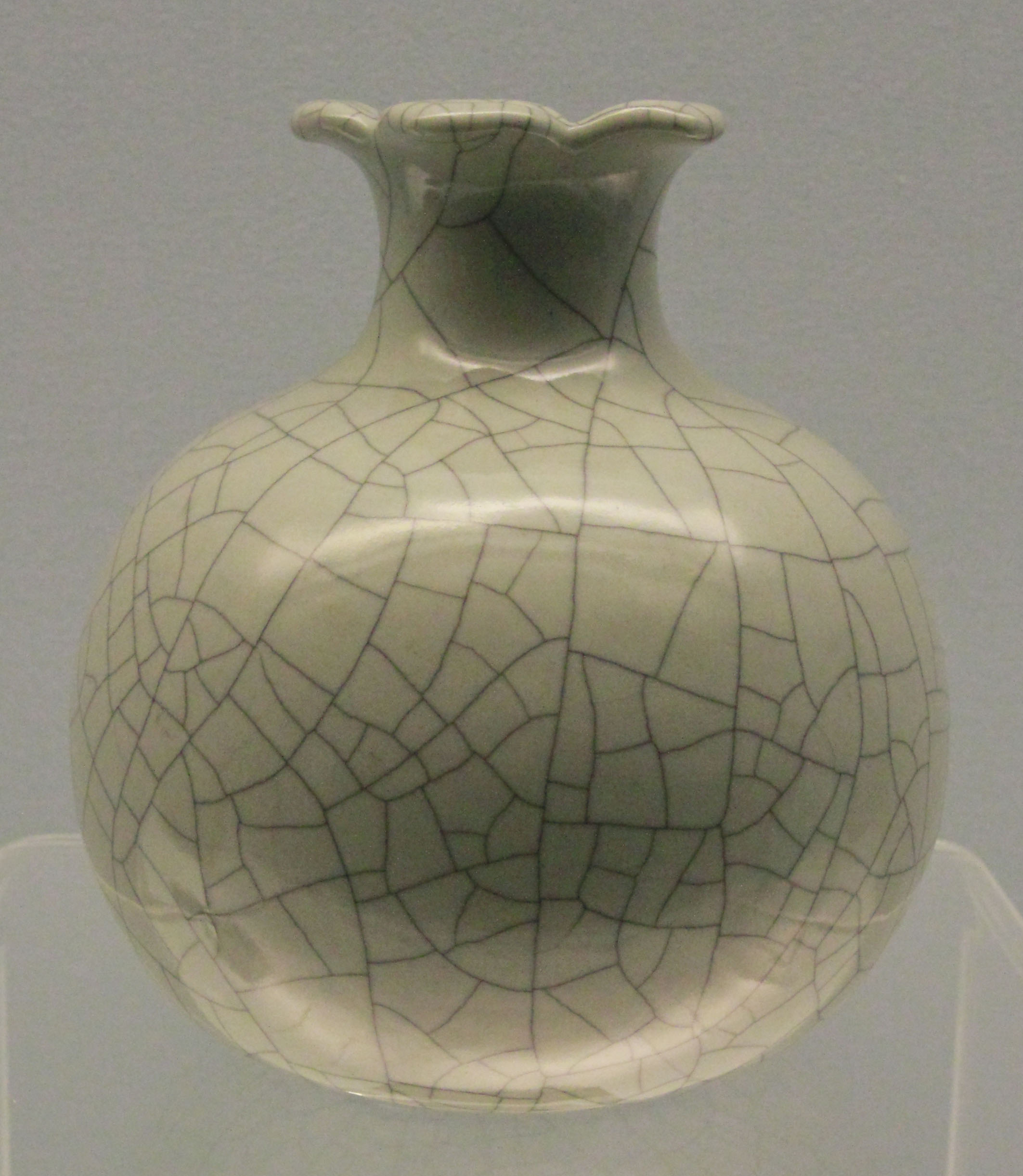 Ge-type pomegranate-shaped Zun(vase), Jingdezhen ware，1723～1735 A.D., a collection of Shanghai Museum